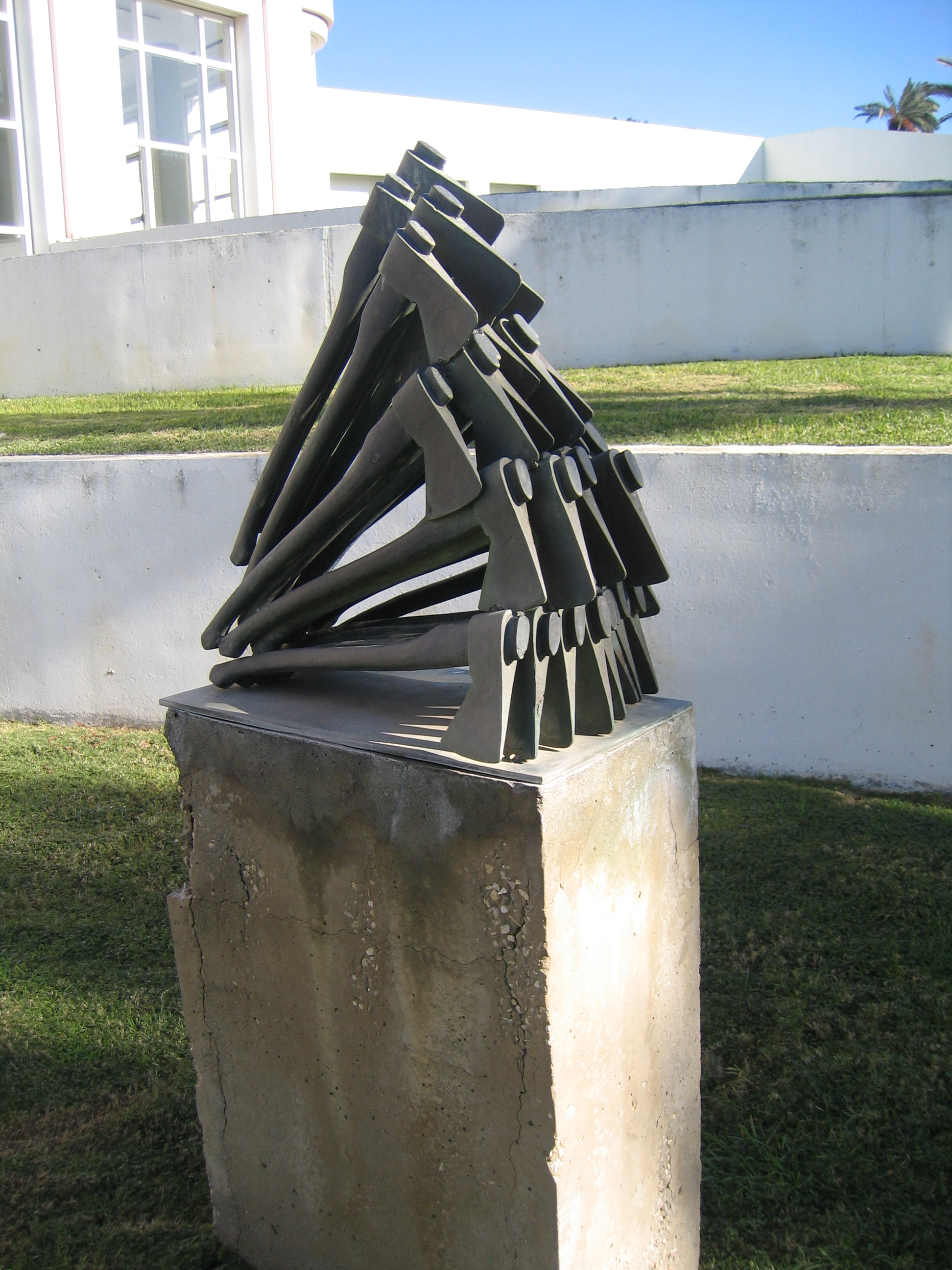 "Avalanche" (1990) by Pierre Arman at Tel-Aviv University campus.